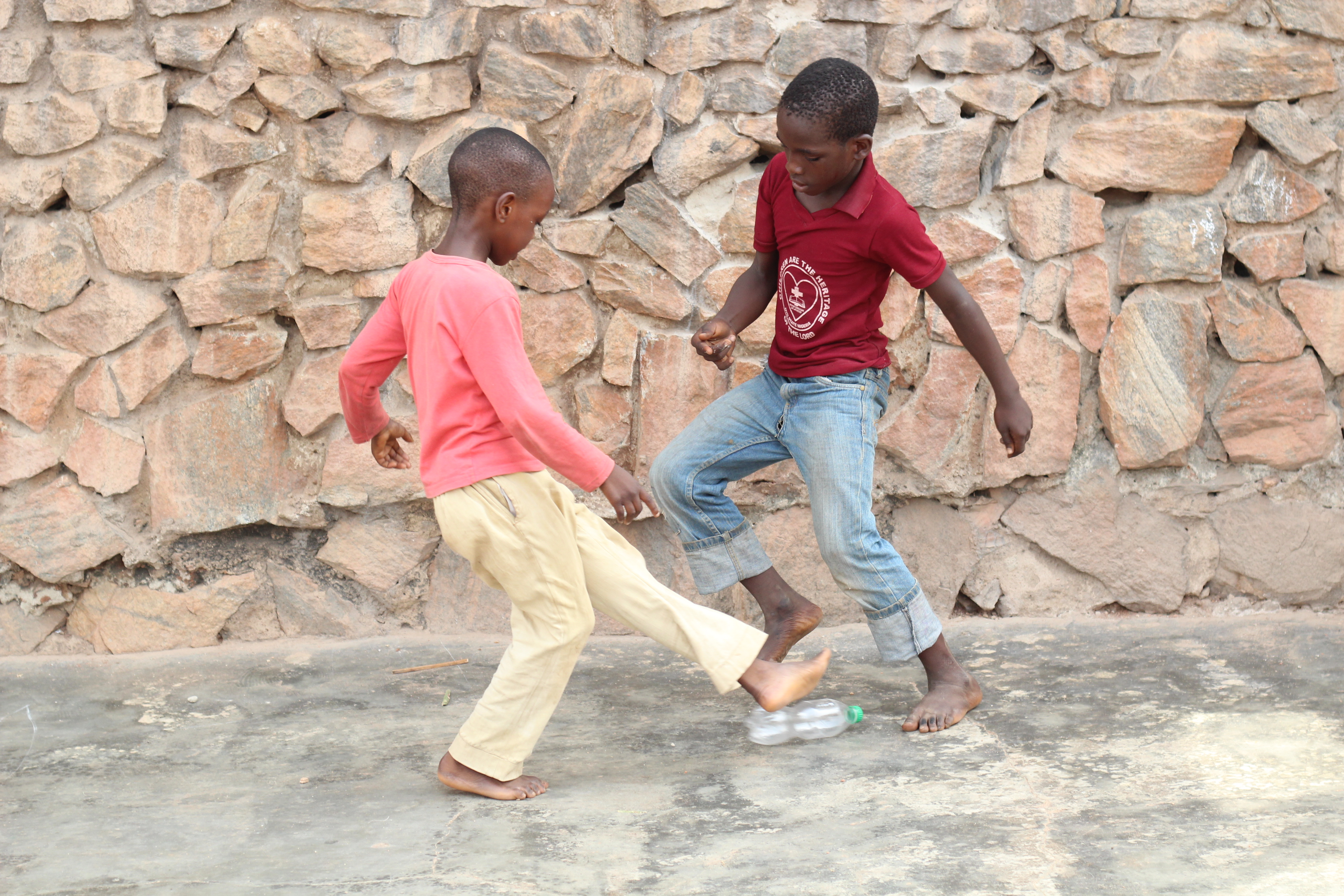 Kids from Nigeria playing soccer using an empty water bottle as the ball. This often happens when there is no money to buy a real ball.